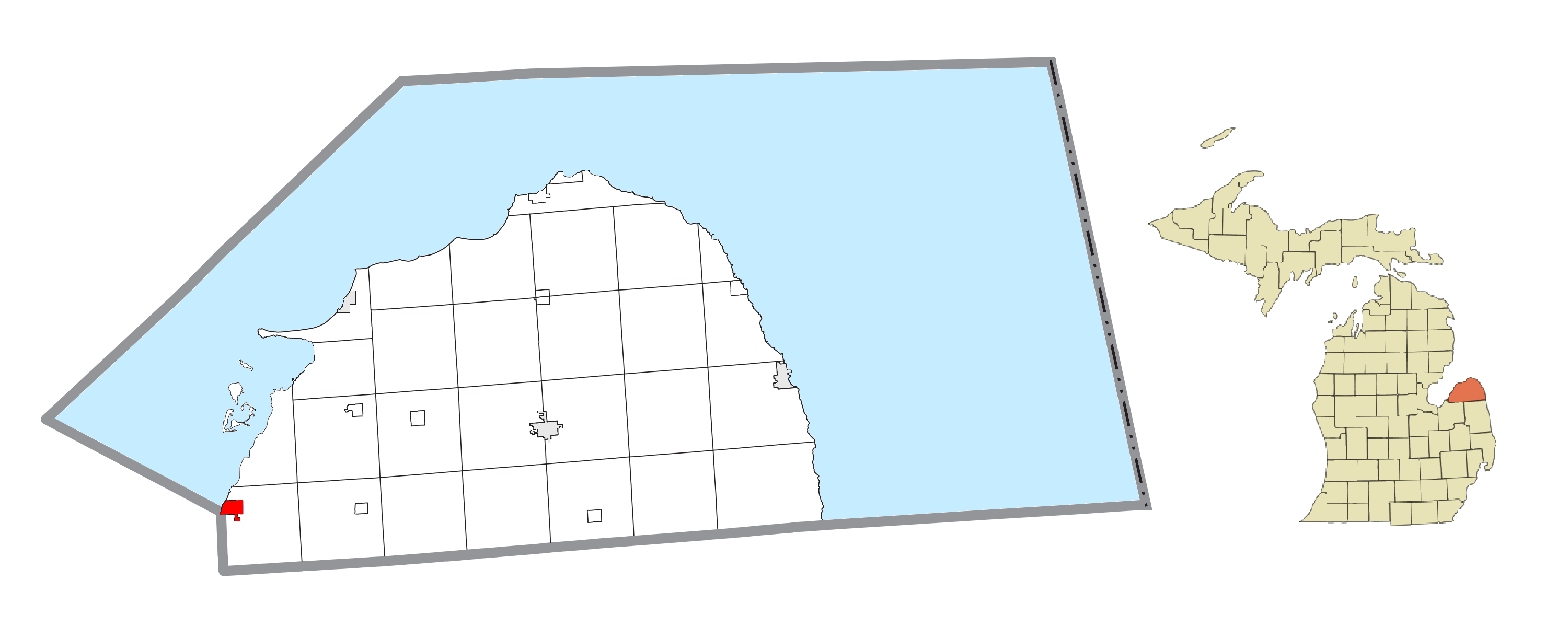 Sebewaing, MI